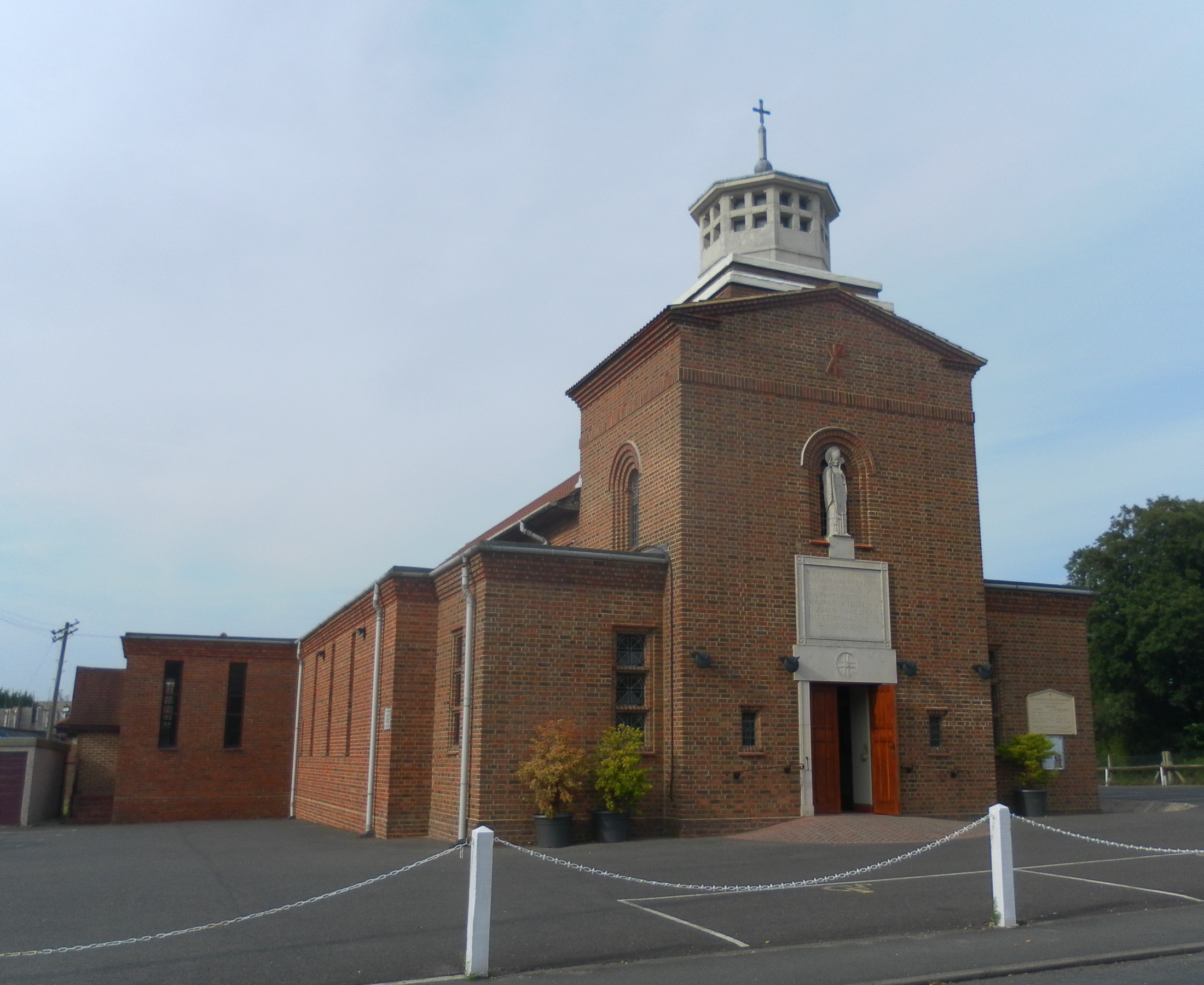 St Wilfrid's Church, Station Road, Burgess Hill, Mid Sussex, England. The Roman Catholic church serving the town of Burgess Hill.